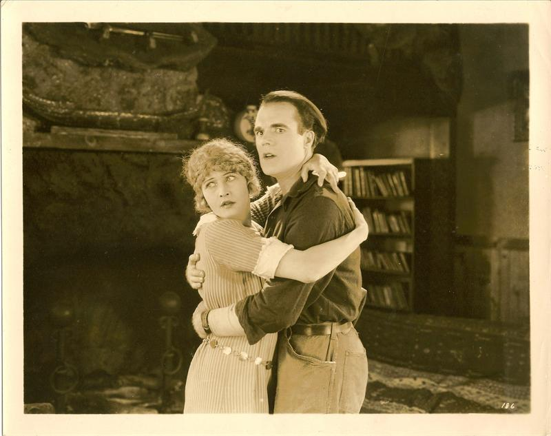 Anna Q. Nilsson and Craig Ward in Hearts Aflame